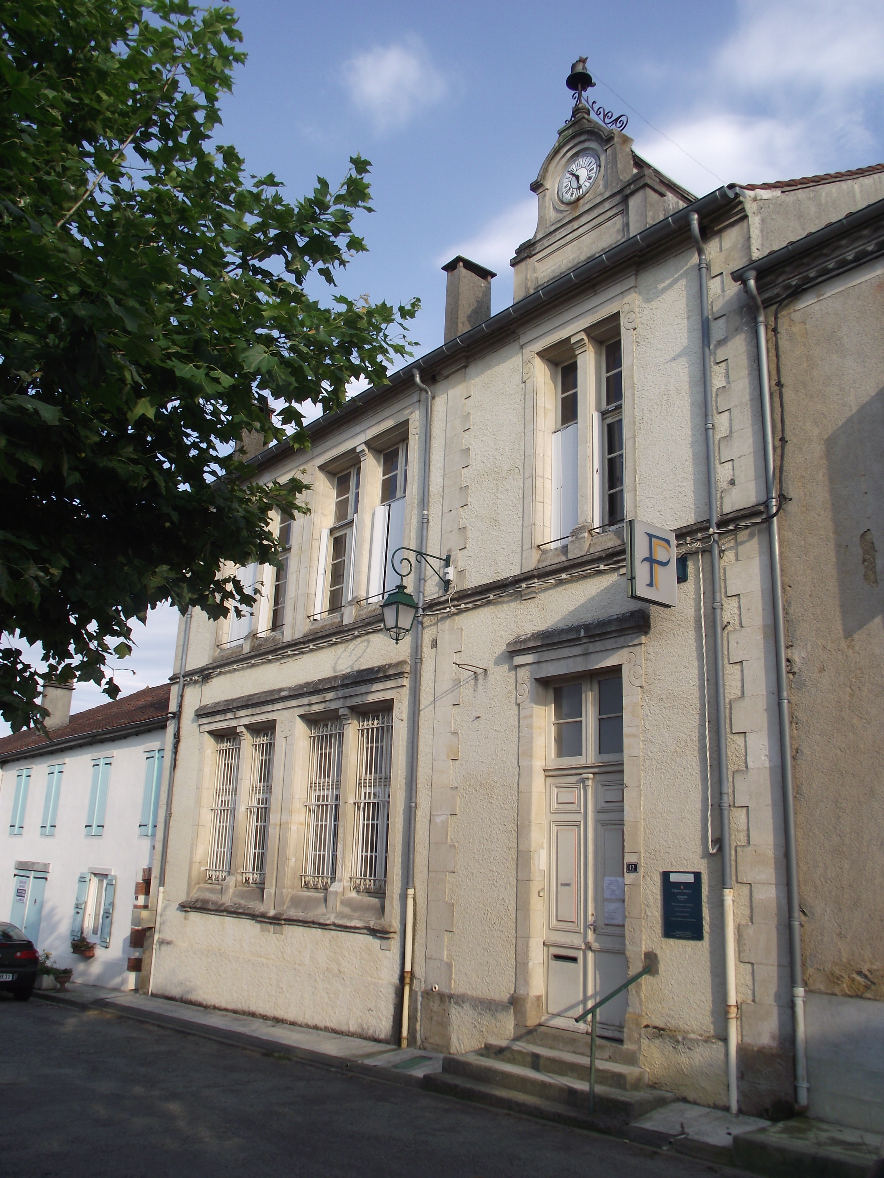 Miélan Tax Office, Gers, France